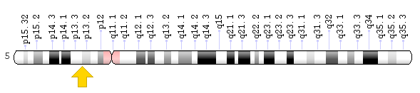 Cytogenetic Location of SLC45A2 gene: 5p13.2, which is the short (p) arm of chromosome 5 at position 13.2 Molecular Location of SLC45A2 gene: base pairs 33,944,616 to 33,984,675 on chromosome 5 (Homo sapiens Annotation Release 108, GRCh38.p7) (NCBI)